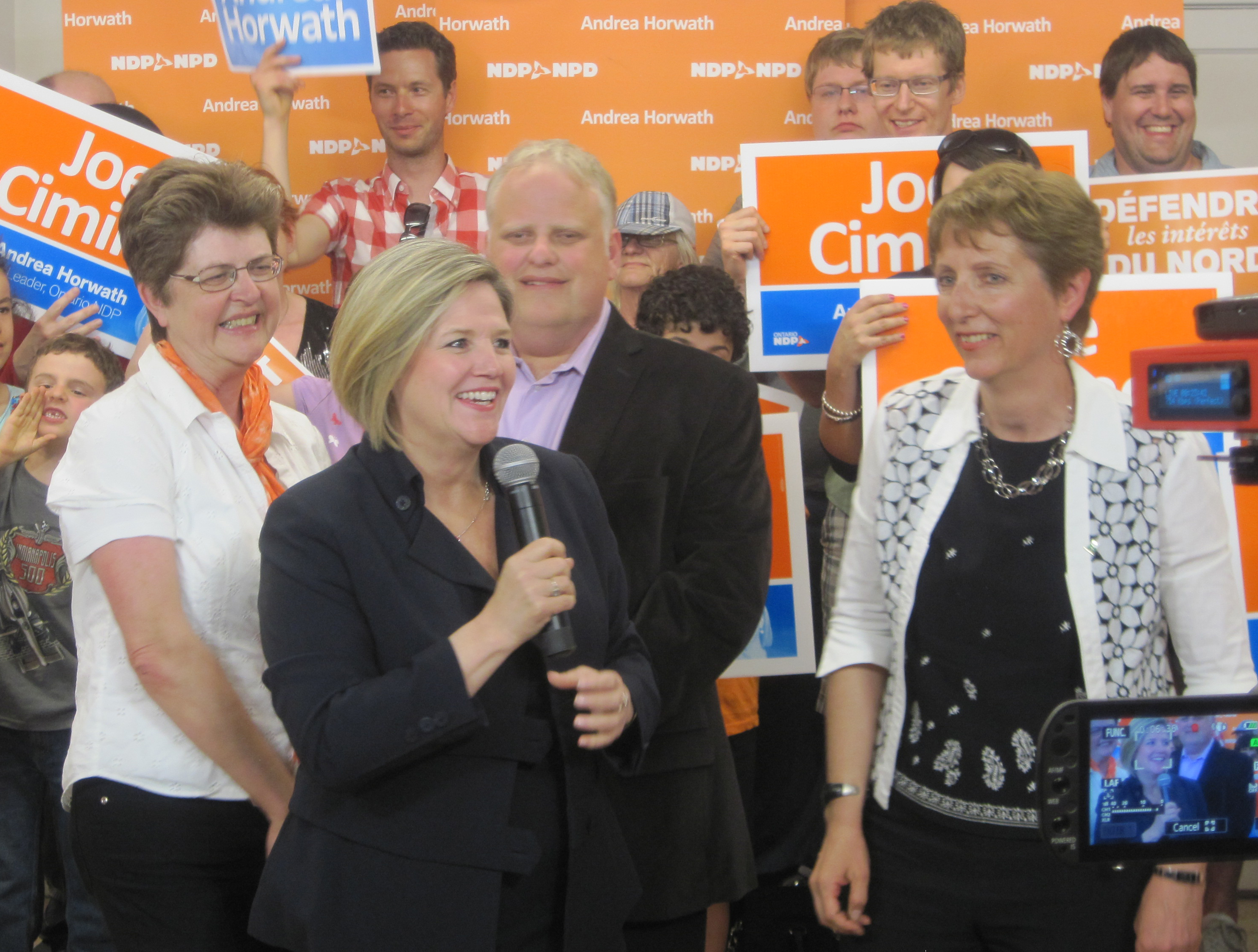 Ontario New Democratic party gathering in Sudbury before Ontario's 41st general election. In the picture, from left to right, Celia Ross, candidate for Sault Ste. Marie, Andrea Horwath, leader of the NDP, Joe Cimino, candidate for Sudbury and France Gélinas, MPP and candidate for Nickel Belt.